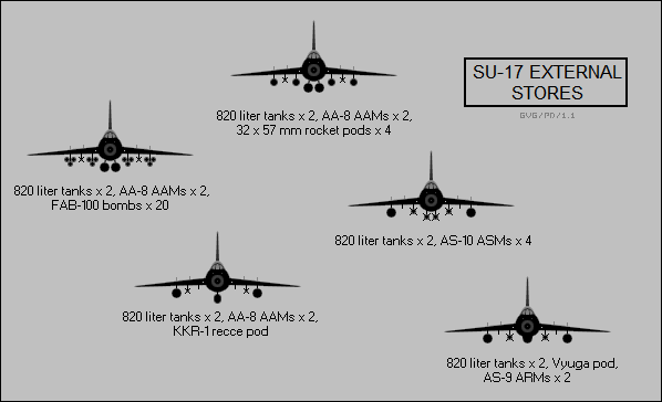 Front-view silhouettes showing Sukhoi Su-17 external stores